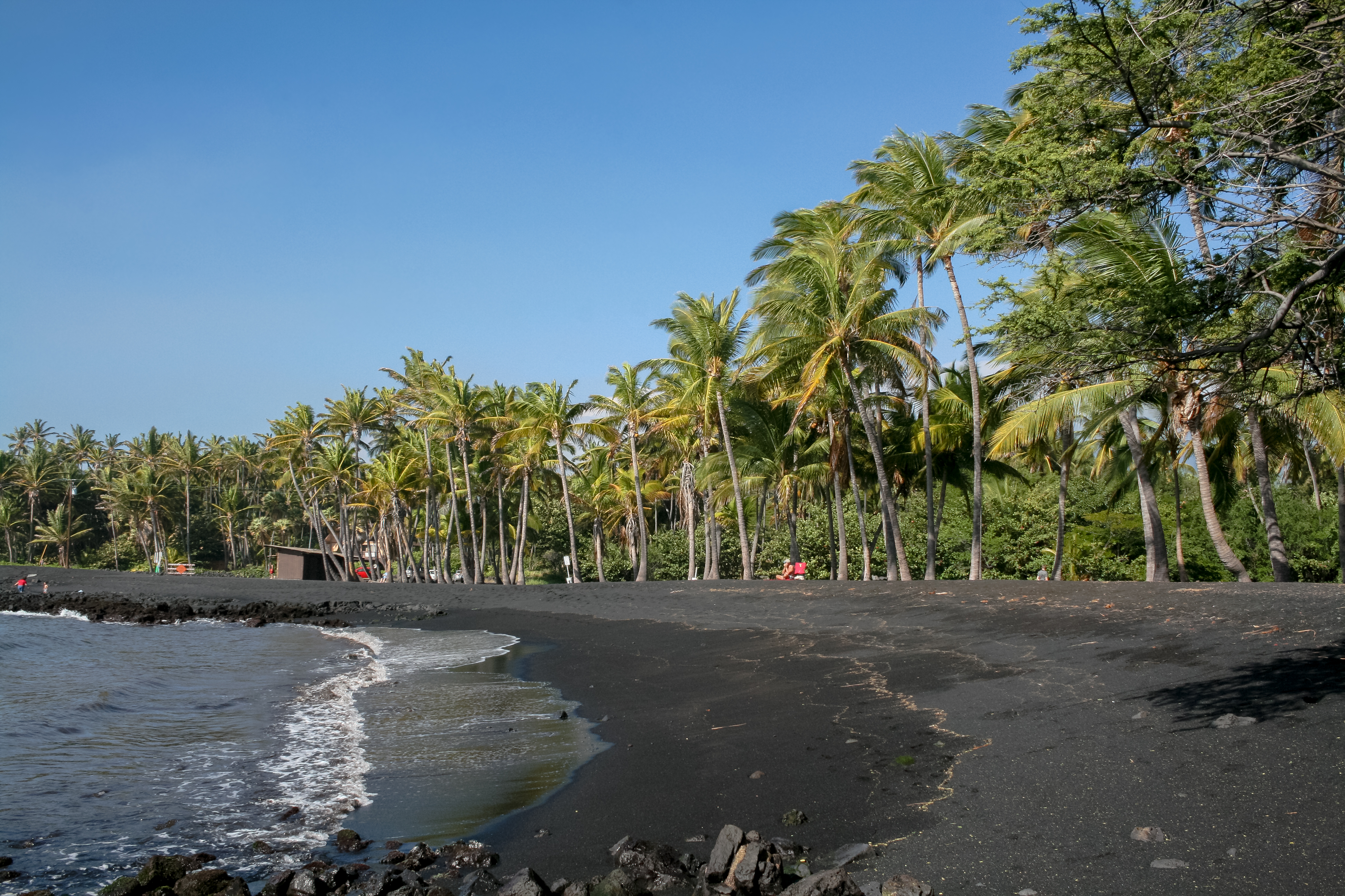 Punaluu Black Sand Beach, Hawaii, USA